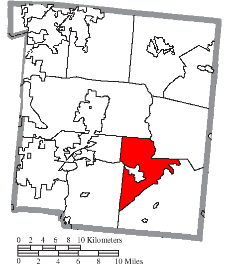 Map of the municipal and township boundaries of Warren County, Ohio, United States, as of the 2000 census, with the location of Salem Township highlighted. Township borders are shown only in unincorporated areas in order to differentiate incorporated and unincorporated areas more clearly.